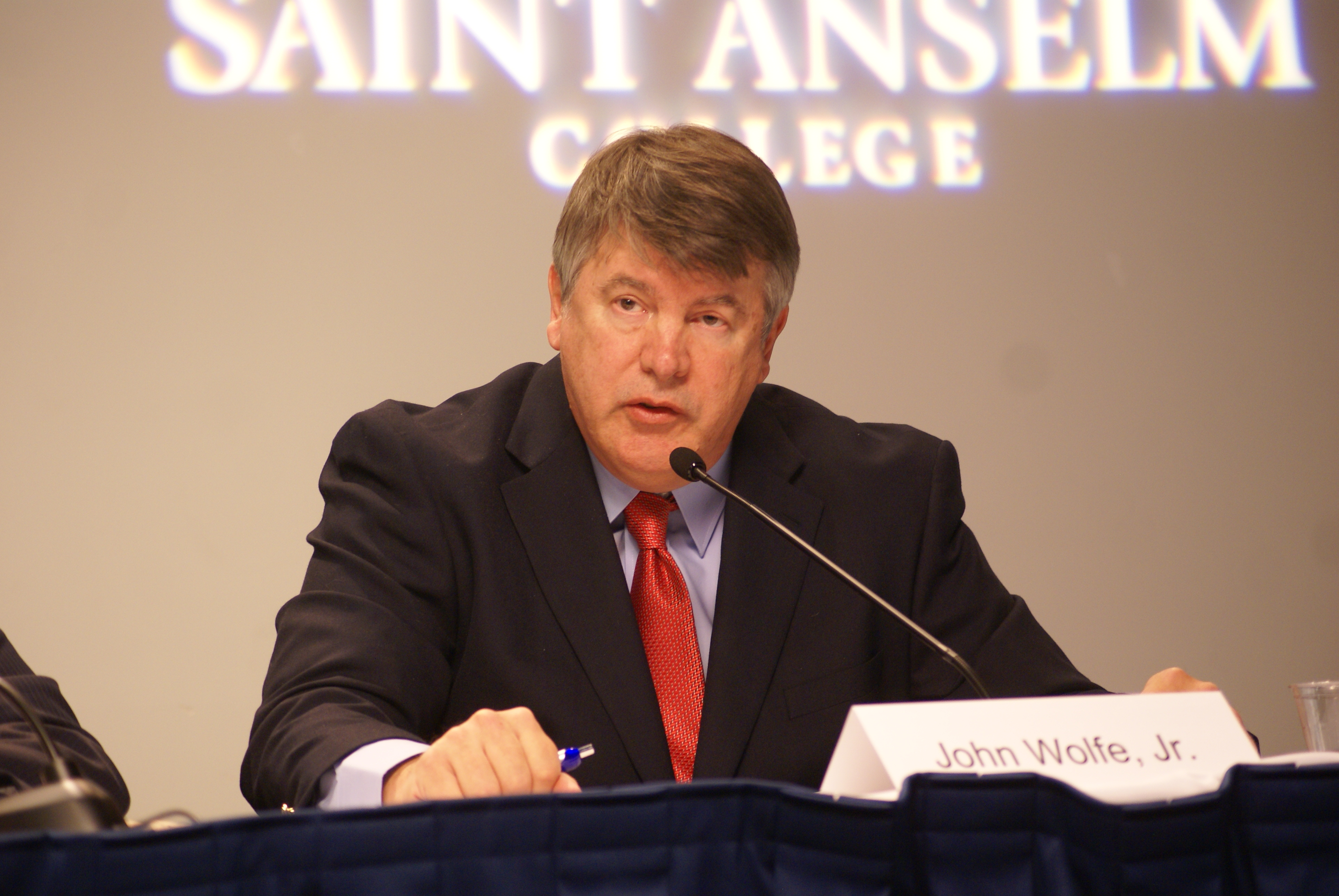 John Wolfe on Lesser-Known Presidential Candidates Forum